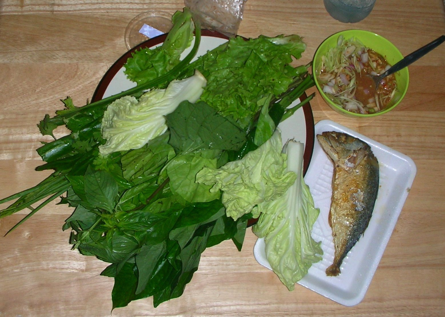 Nam phrik pla thu is a variety of Nam phrik that is eaten along with raw vegetables and fried or grilled Pla thu.